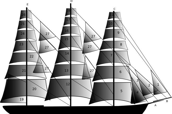 A diagram of a 3-masted clipper ship, with each sail numbered, in fore-to-aft order.